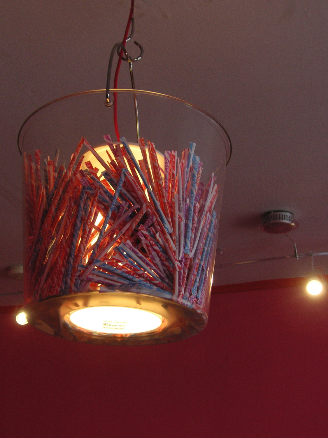 Pixy Stix in bucket light